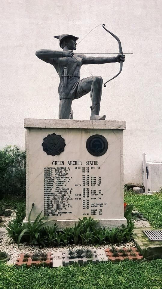 The Green Archer, statue, now standing at the Chess Plaza, was done by Ed Castrillo in 1985, as commissioned by Class 1966 under the leadership of Muniosguren. It was first exhibited during the celebration of the Diamond Jubilee in 1986. The pedestal was transfered to its present location in 1992.